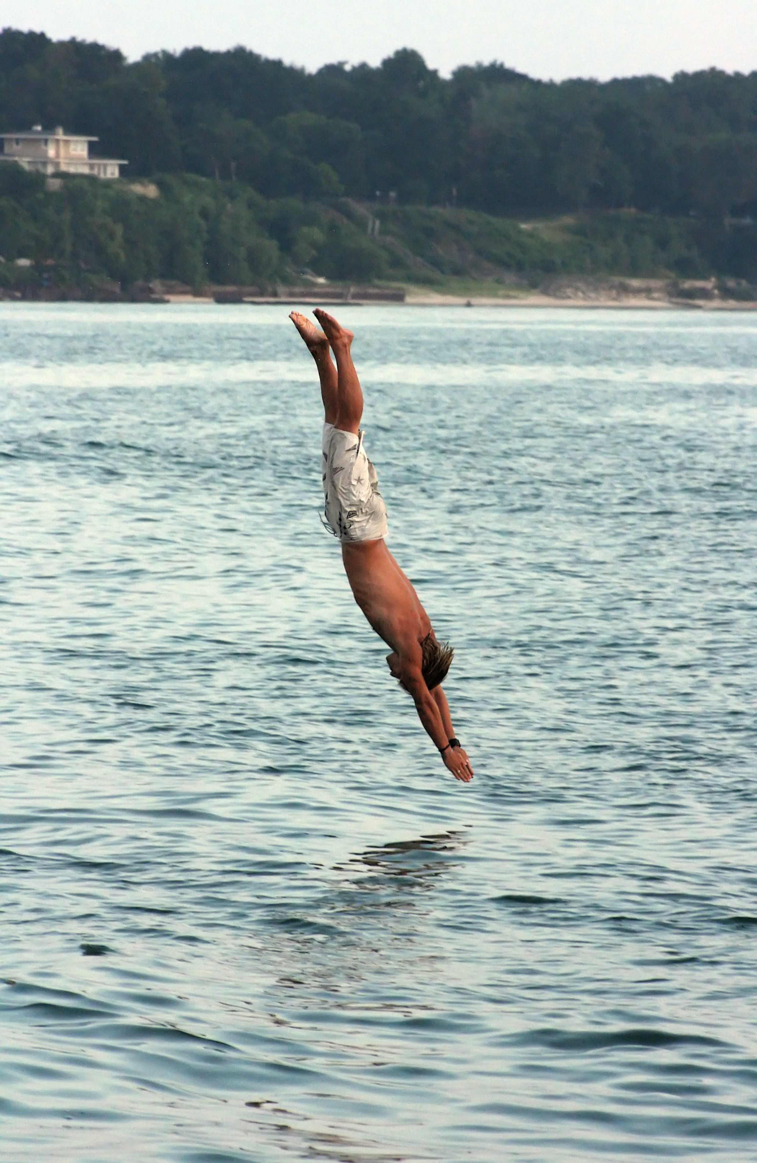 A man diving into Lake Michigan off of his boat, which is anchored off shore of South Haven, MI.